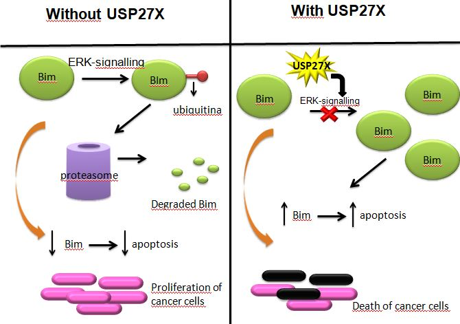 On the left, mechanism used by melanoma and non-small cell lung cancer to avoid apoptosis. On the right, effect of USP27X's presence, acting as a tumour supressor due to allowing Bim to stabilize and induce apoptosis